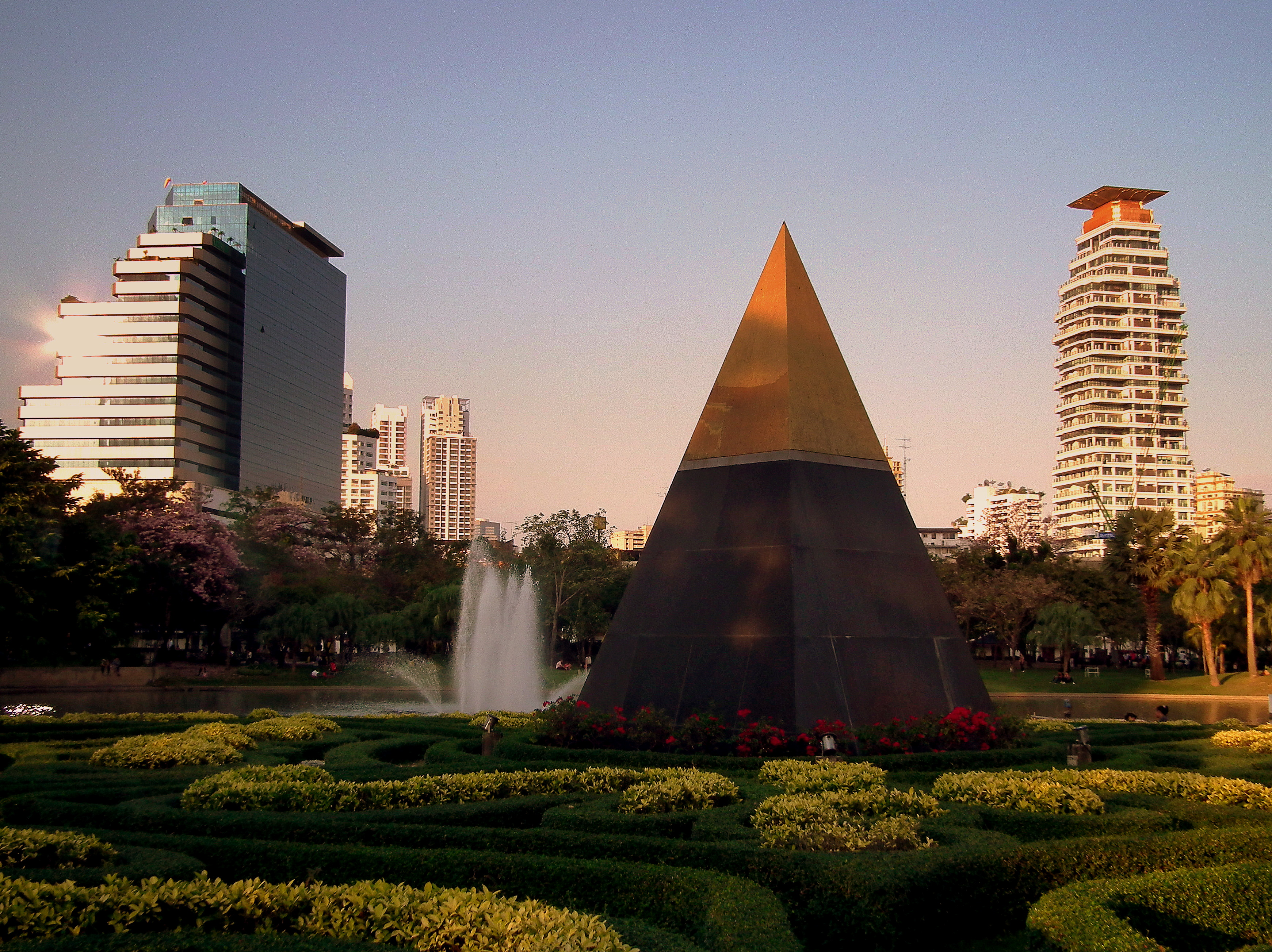 BANGKOK THAILAND JAN 2012